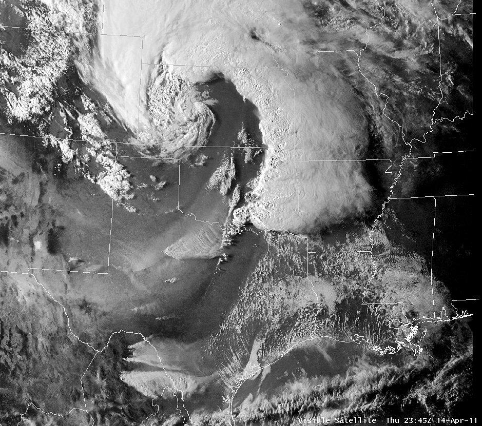 Visible Satellite Image of the storm system affecting eastern OK. Image valid 6:45 pm CDT 4/14/2011